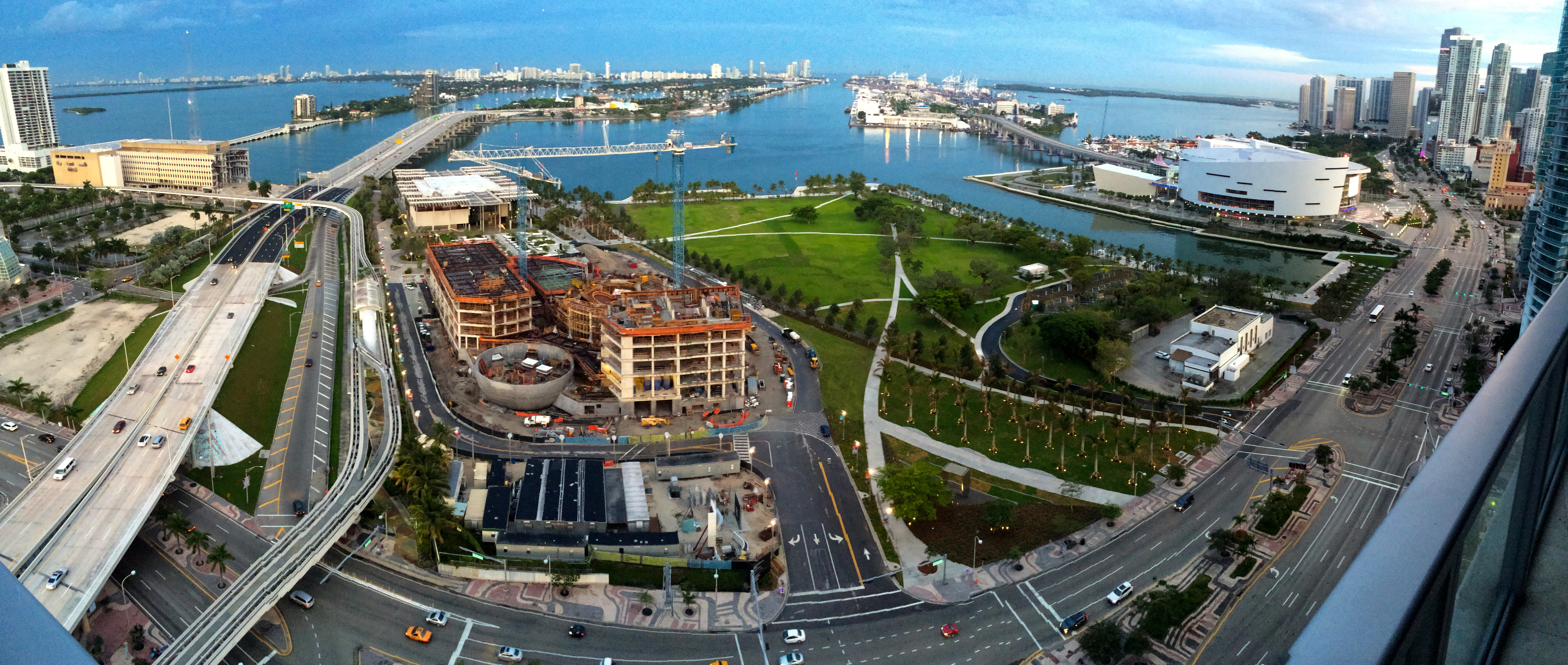 Bicentennial Park as seen in June 2014 from 1100 Biscayne Blvd